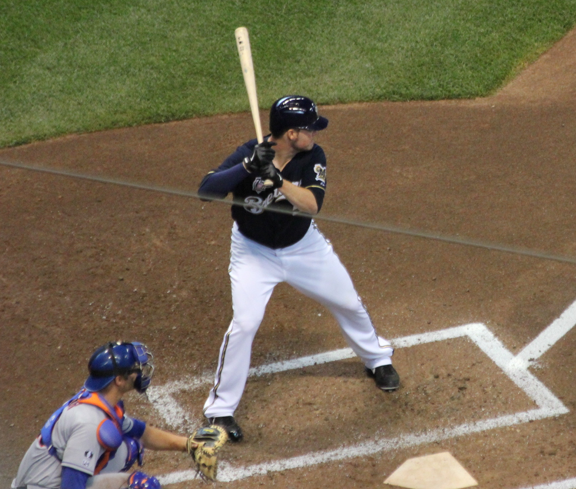 Pitcher Jimmy Nelson battling for the Milwaukee Brewers. He got his first career hit at this plate appearance.